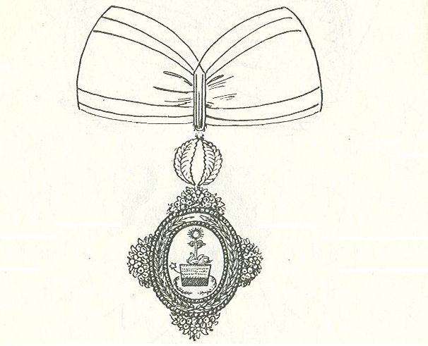 Drawing by Maximilian Gritzner. Published in his book on Orders in 1893. He died in 1902. Japanese Order of the Precious Crown